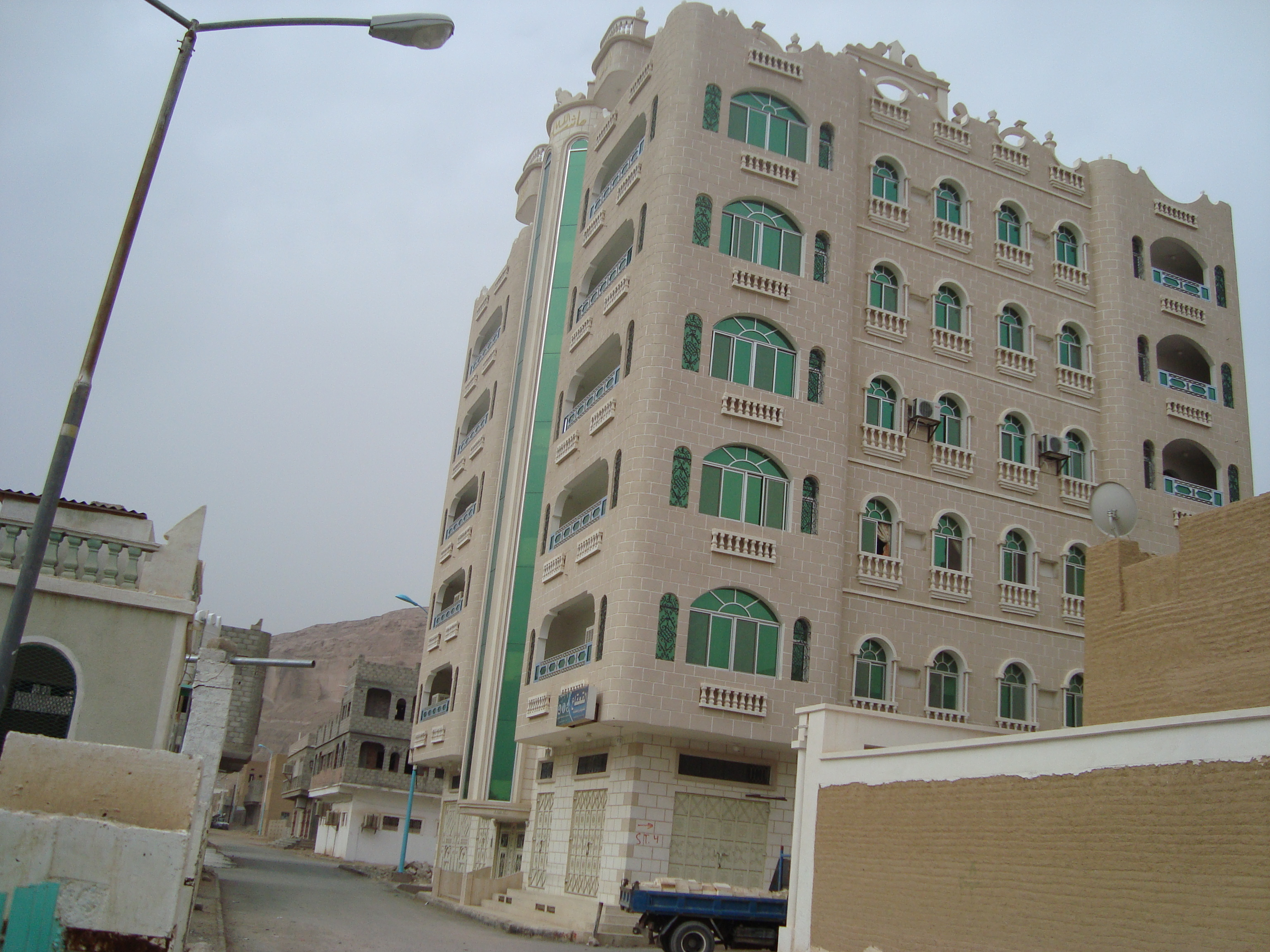 Seiyun